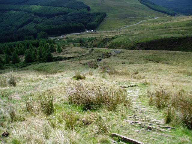 The Beacons Way at Craig y Fan Ddu View south down the Beacons Way towards the parking area at Blaen y Glyn from Craig y Fan Ddu